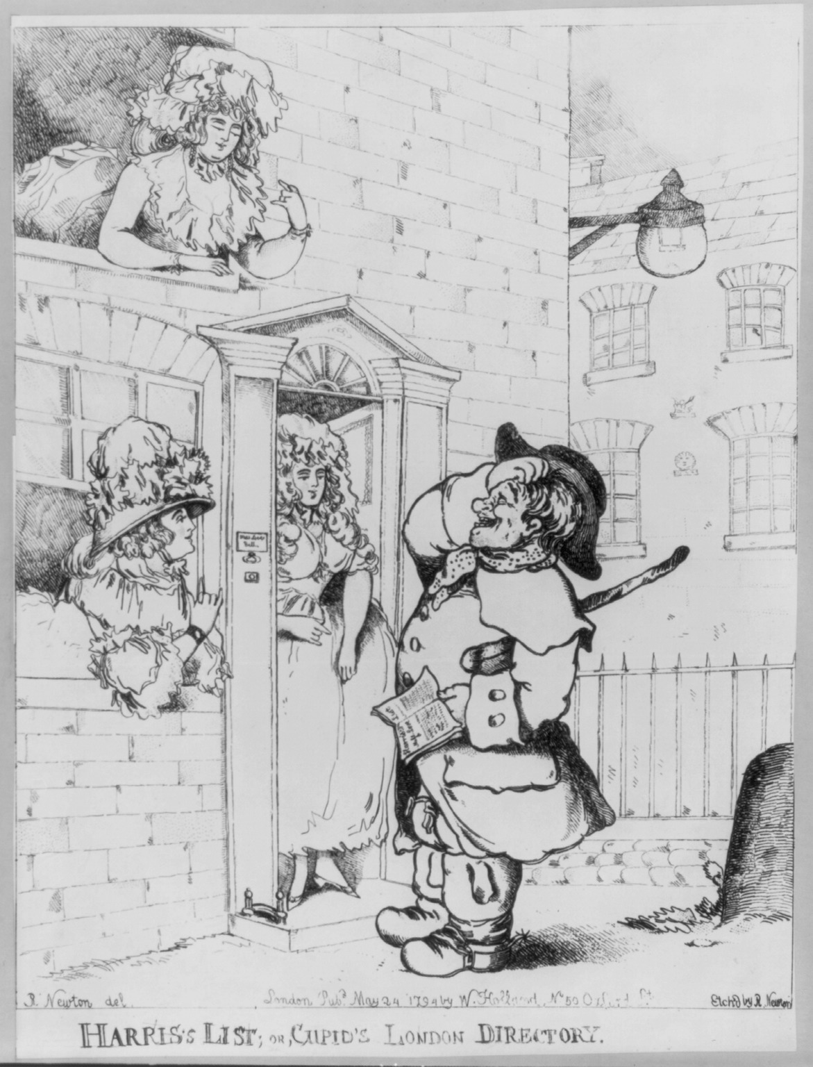 Title: Harris's list; or, Cupid's London directory Abstract: Print shows a man with a copy of "Harris's list" open to the page for "Miss Love" standing in front of Miss Love's establishment; there is a young woman standing at the door, one leaning out a first floor window, and another leaning out a second floor window, each gestures with one hand with the index and little finger extended, the middle and ring fingers tucked into the palm of the hand forming the horns of the cuckoldry. Physical description: 1 print : etching. Notes: Forms part of: British Cartoon Prints Collection (Library of Congress).; Title from item.; R. Newton del. ; etch'd by R. Newton.